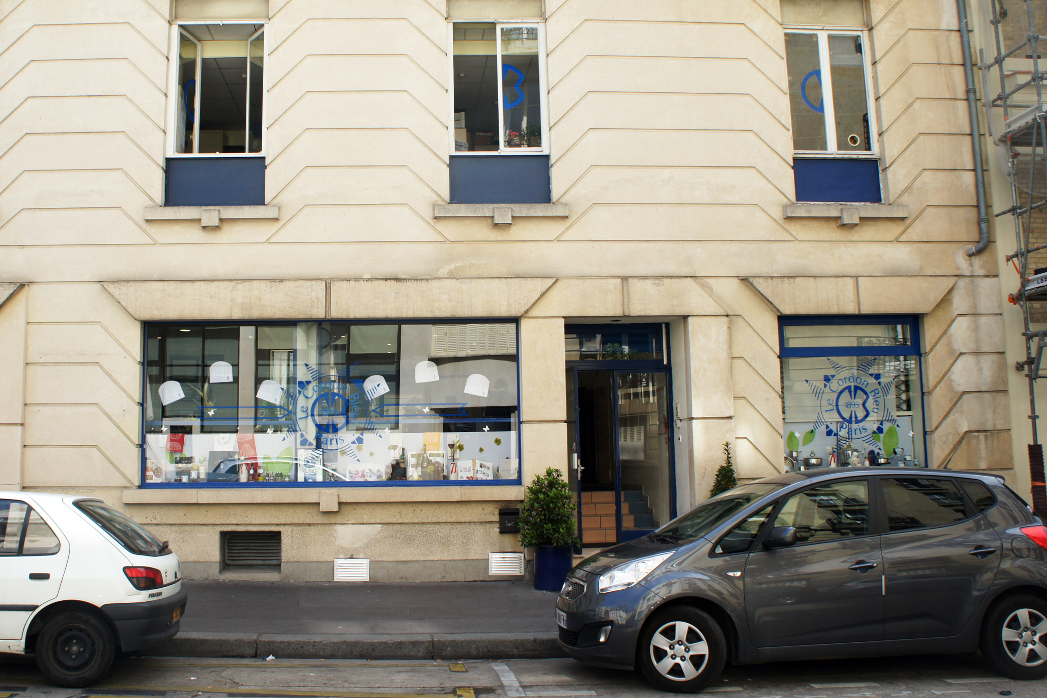 Le Cordon Bleu Paris culinary school, Paris, France